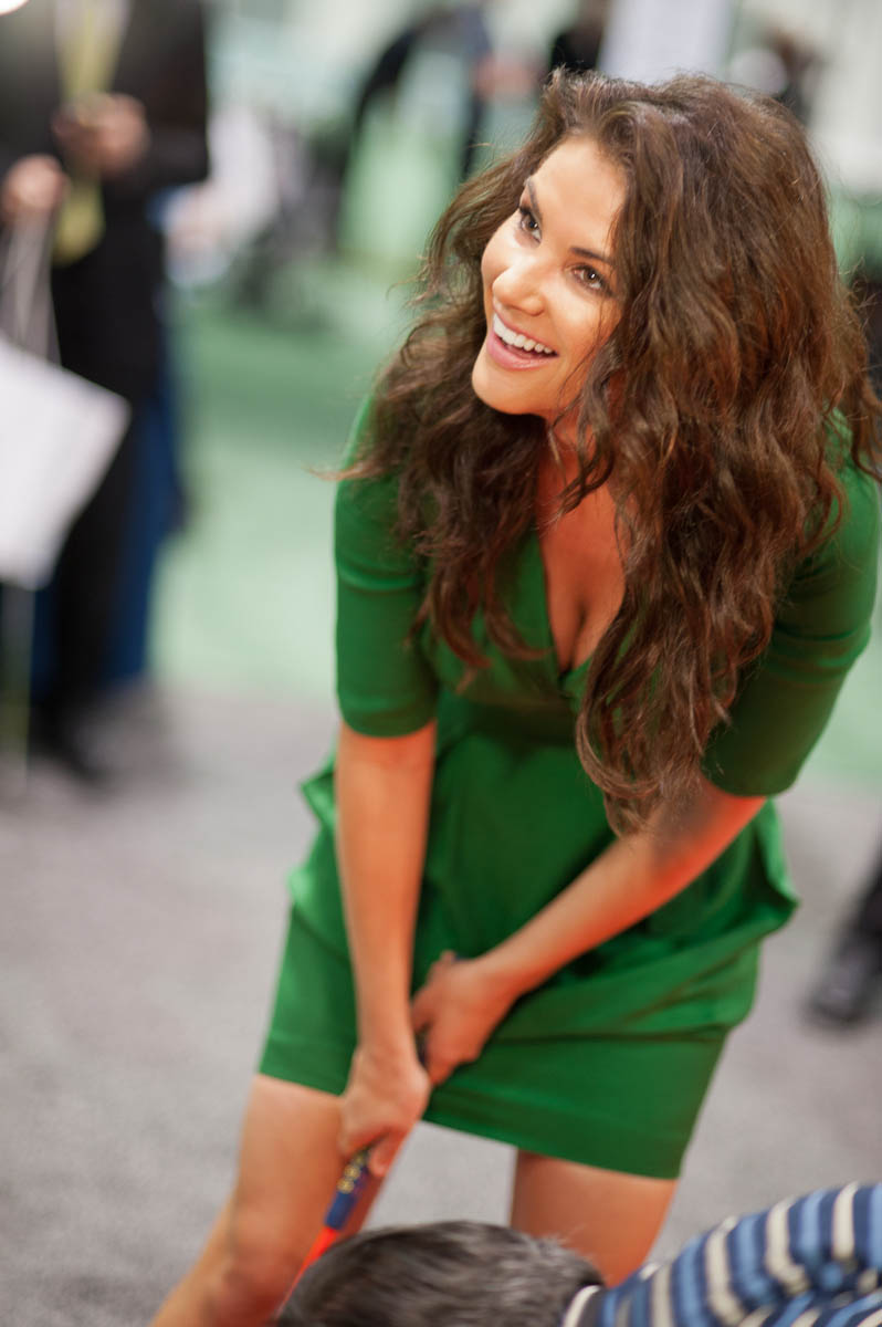 Aly Waite